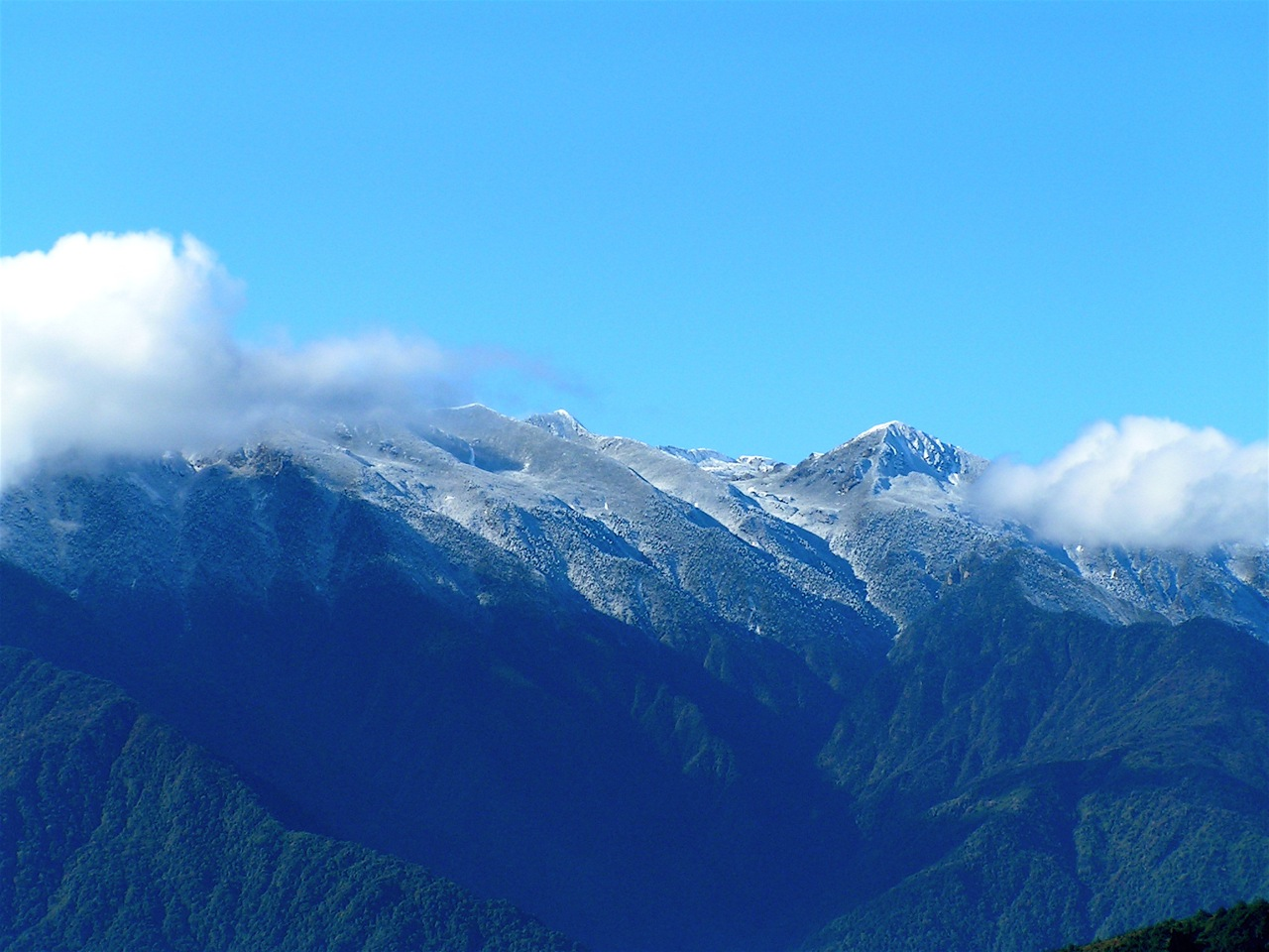 Mountain scenery in Bhutan